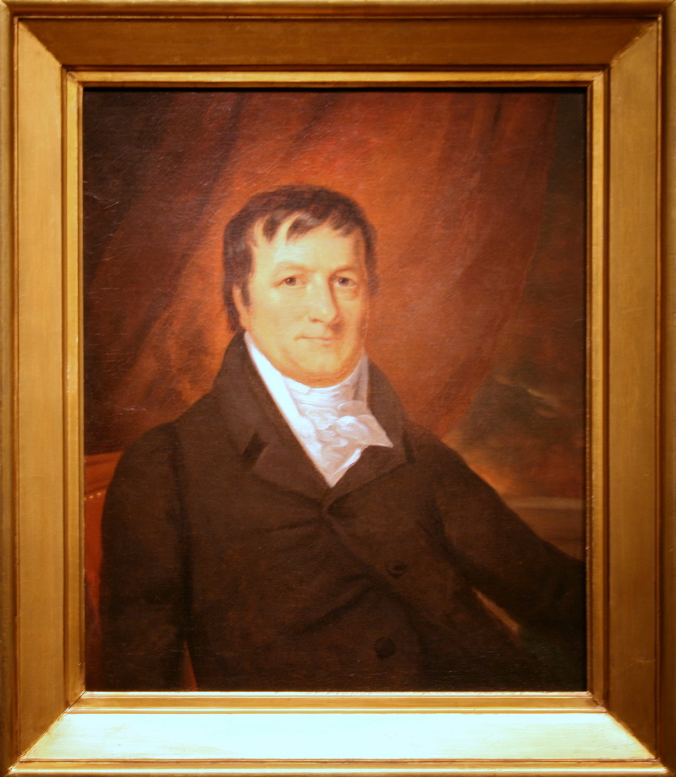 Portrait of John Jacob Astor